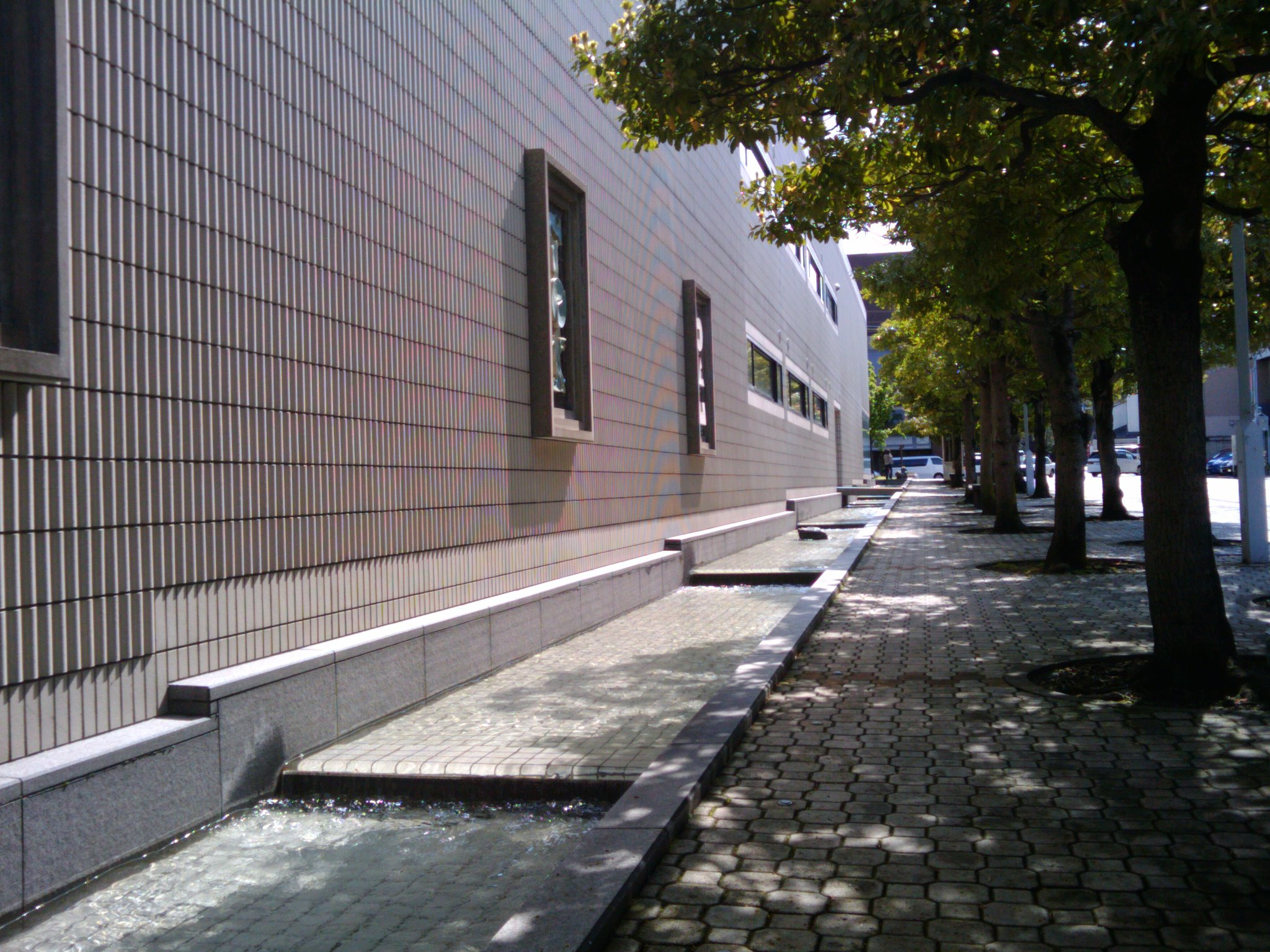 Kanazawa Bunka Hall (Kanazawa, Ishikawa, Japan)